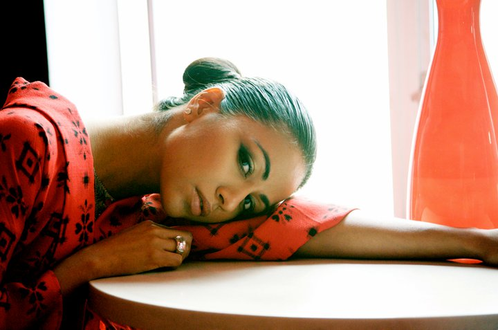 Karen David with red clothing, black hair and her head on the table.